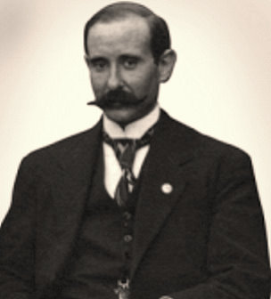 Hans Nobiling, association football player, founder of SC Germania, Football Club, São Paulo, Brazil, ca. 1930